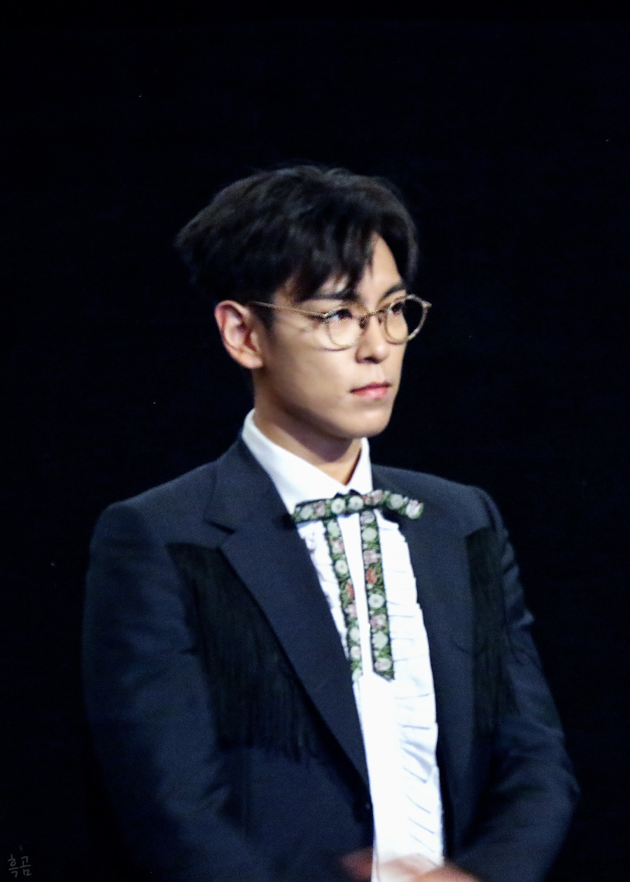 Big Bang members in the premiere of their movie "MADE" in June 28, 2016